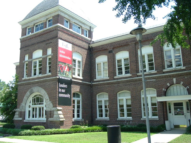 UL Justice/ Law Bldg